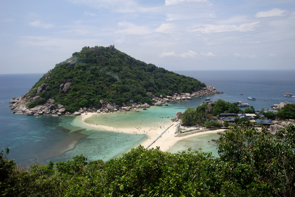 Koh Nangyuan Marine Park, Koh Tao, Thailand